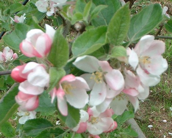 Cox Orange Pippen apple bloom, British Colombia, Canada